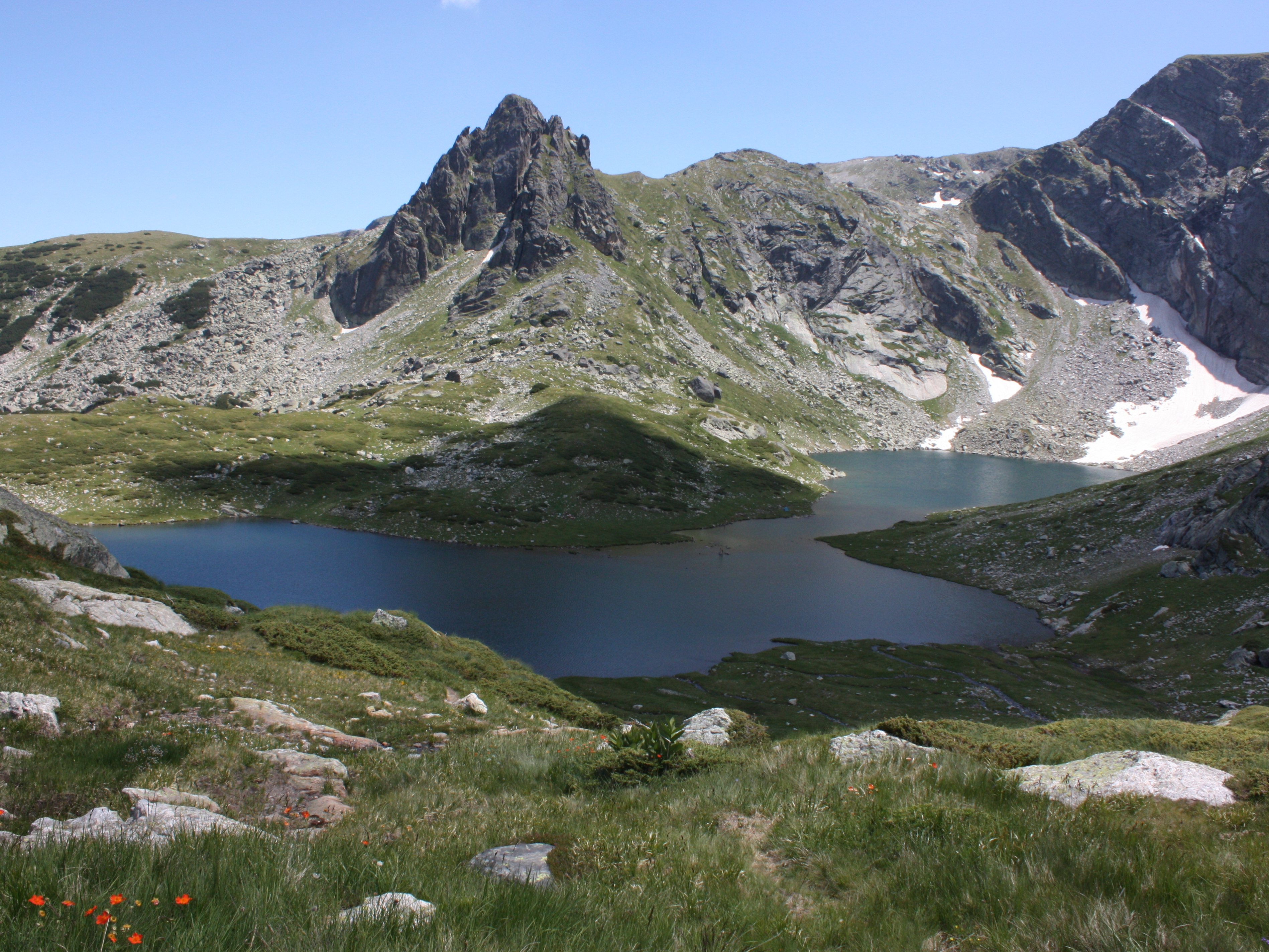 "The Twins" lake, one of the seven Rila lakes in Bulgaria.